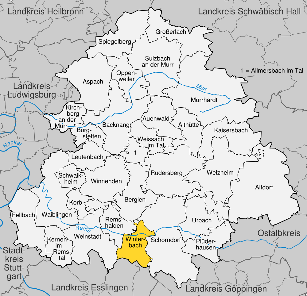 position of Winterbach within the Rems-Murr-Kreis, Baden-Württemberg, Germany